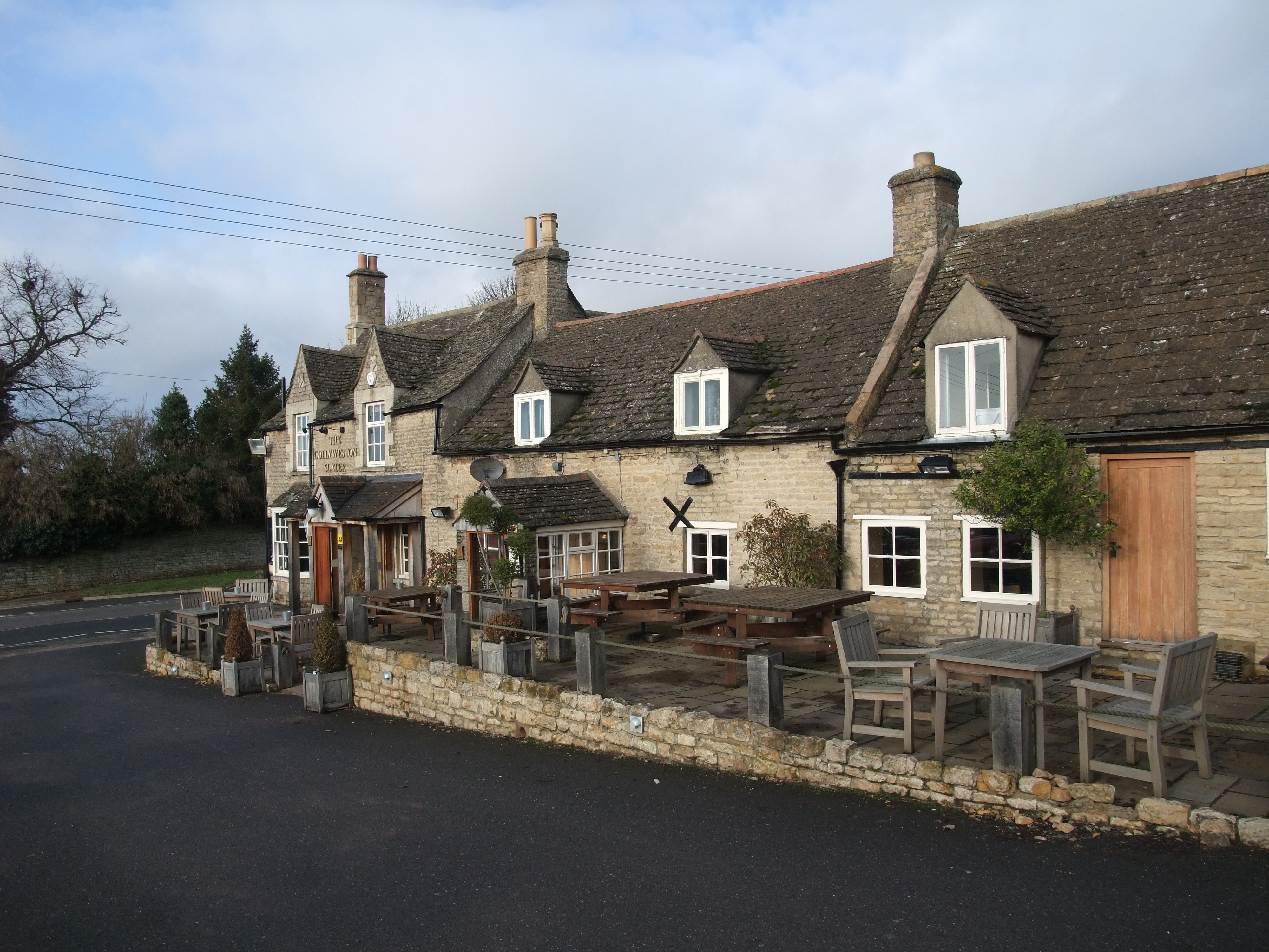 The Collyweston Slater — in Collyweston, northeastern Northamptonshire. Originally a 17th century coaching inn, extended to include adjoining cottages. The name refers to the village's importance as a centre for producing Collyweston slate roofs material — roofing slates from the easily cleaved local Jurassic limestone. Very durable, and still popular for traditional stone buildings.